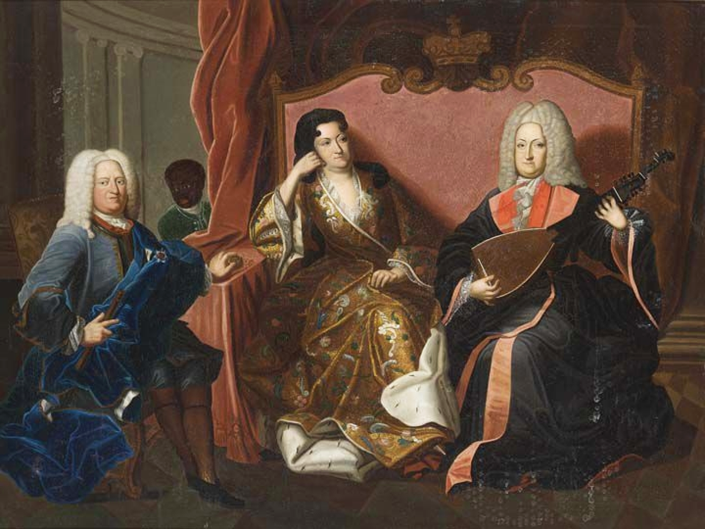 Portrait of Augustus William, Duke of Brunswick-Lüneburg, (1662-1731), his wife Elisabeth Sophie Marie von Schleswig-Holstein-Norburg (1683-1767) and her brother Ernst Leopold von Schleswig-Holstein-Sonderburg-Norburg (1685-1722), misidentified with: Louis Rudolph, Duke of Brunswick-Wolfenbüttel (1671-1735), his wife Christine Louise of Oettingen-Oettingen (1671-1747) and a court musician